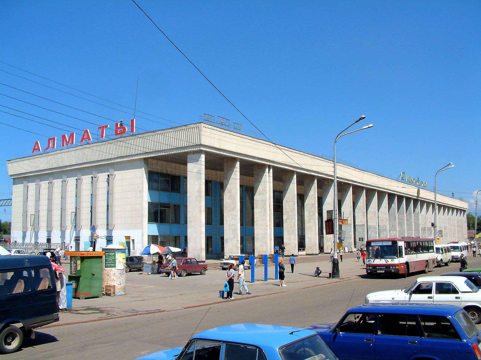 Photo of the old building of Almaty-1 station that was reconstructed in 2007.